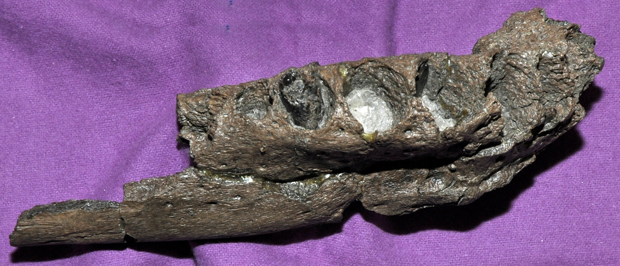 Front part of lower jaw of Lagenanectes richterae in side view